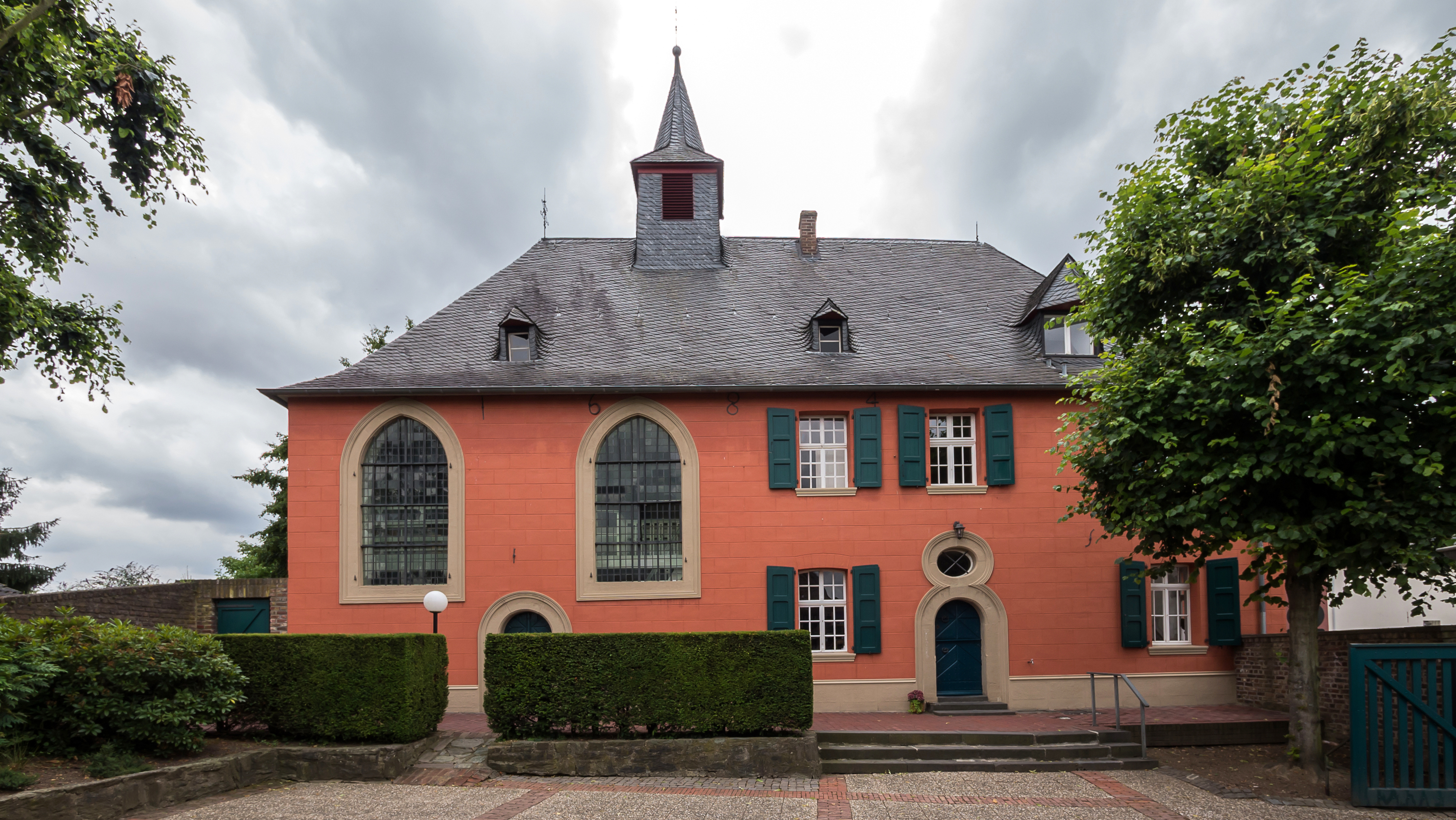 Kirchherten Breite Straße 21, 23 Evangelische Hauskirche IIThis is a photograph of an architectural monument., no. 20